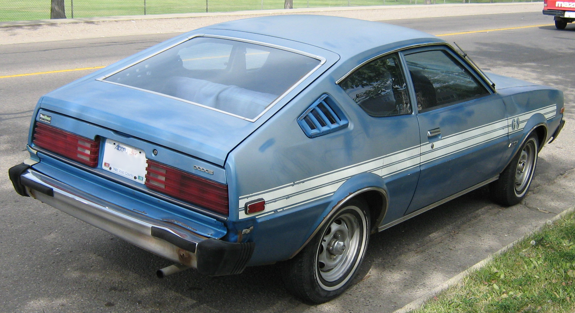 In the US there was the Plymouth Arrow - Canada also got a badge engineered version called the Dodge Arrow. Its a clone of the Mitsubishi Celeste which its self its based on the Mitsubishi Lancer/Dodge Colt.